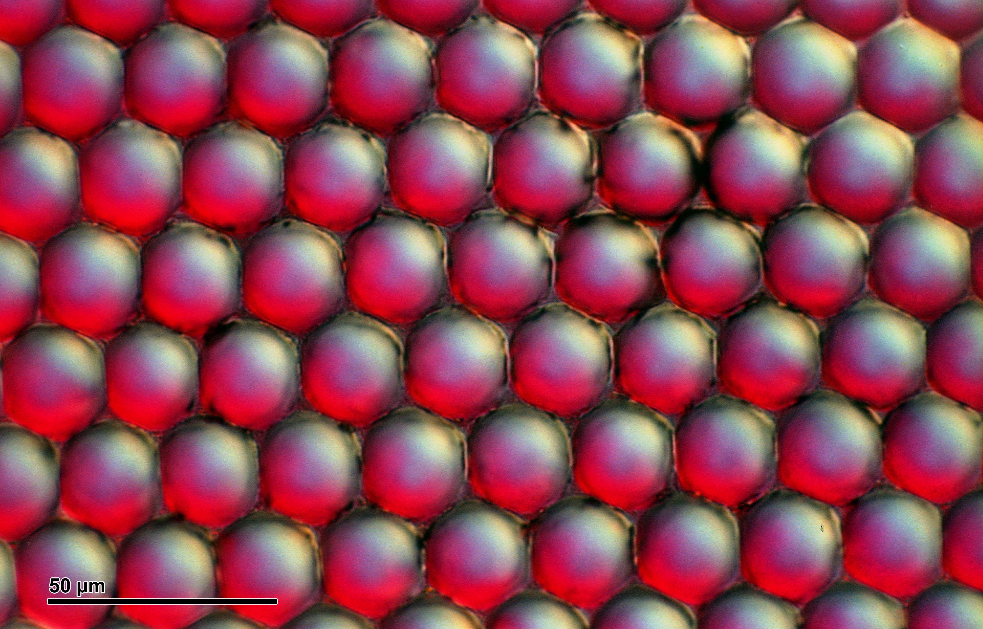 Insect eye: Composite eye of insects. Optical microscopy technique: Differential interference contrast (Nomarski). Magnification: 1200x (for picture width 26 cm ~ A4 format).